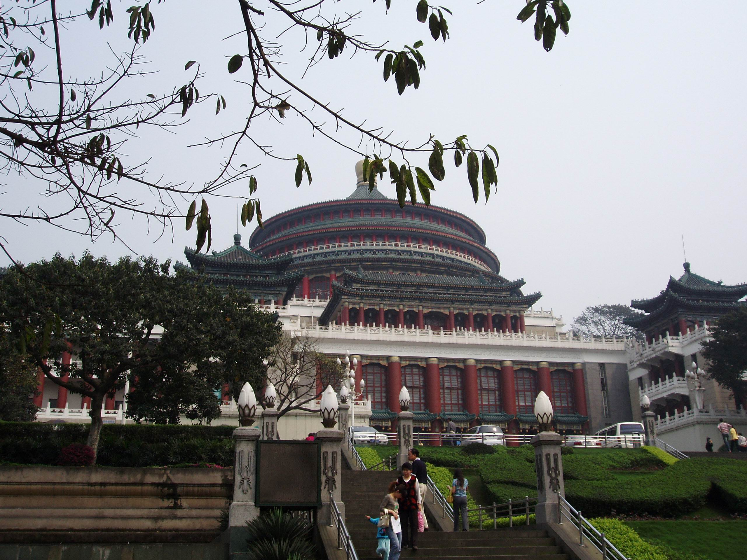 Municipality Hall of Chongqing, China